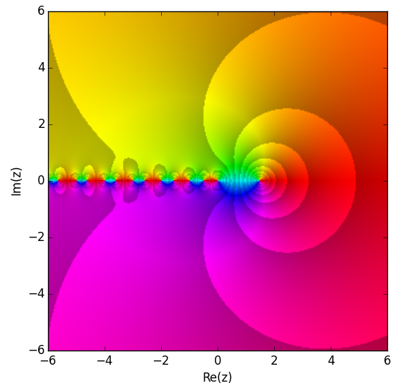 The color representation of the Digamma function ψ ( z ) {\displaystyle \psi (z)} in a rectangular region of the complex plane.